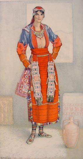 Greek Macedonian Peasant Woman's Dress (Macedonia, Baltza) - Greek Costume Collection by NICOLAS SPERLING (Russia 1881-1940 / act: Athens).